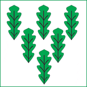 Tamsalu valla lipp (1993–2005)